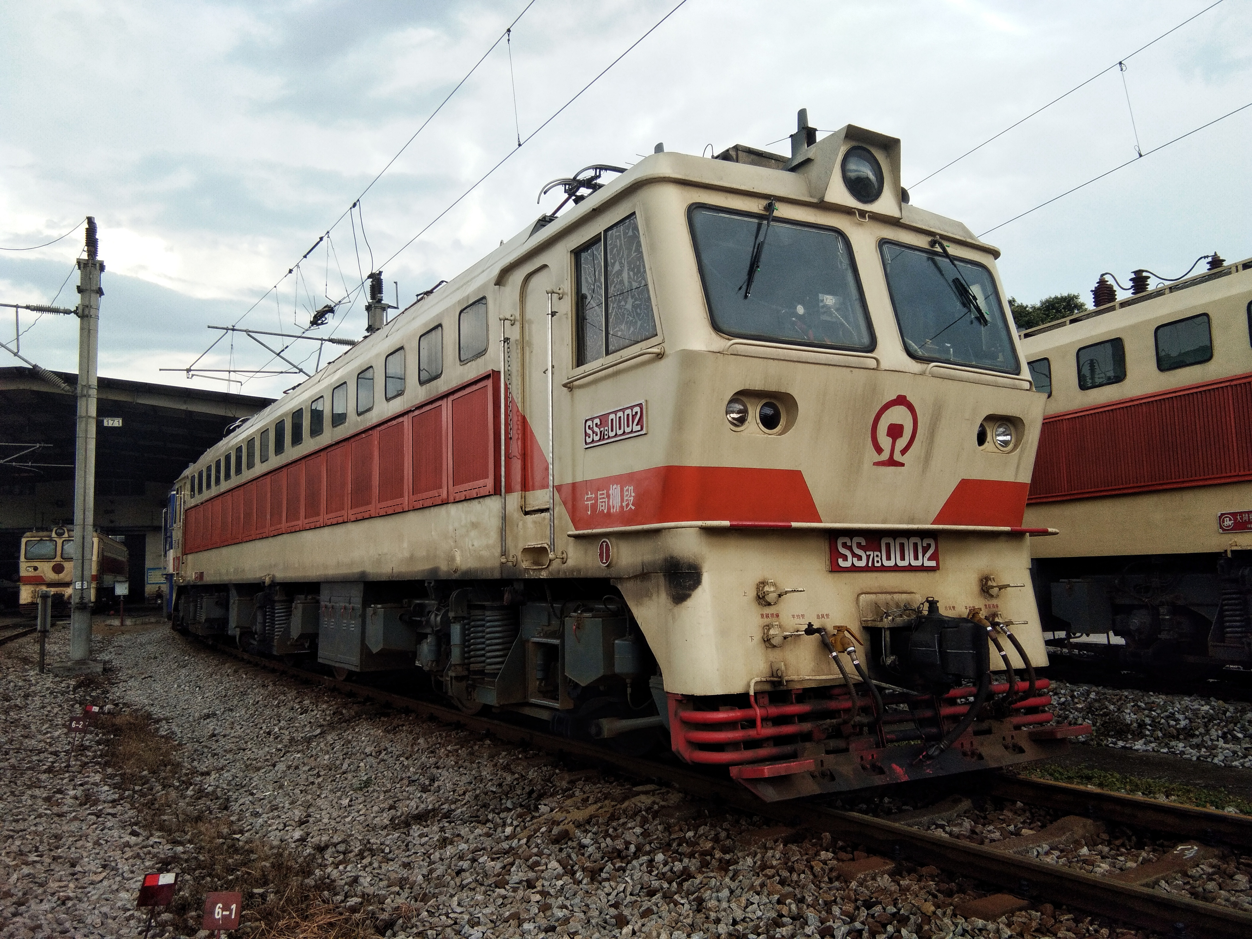 SS7B-0002 in Liuzhou Locomotive Depot, May 26th, 2018.